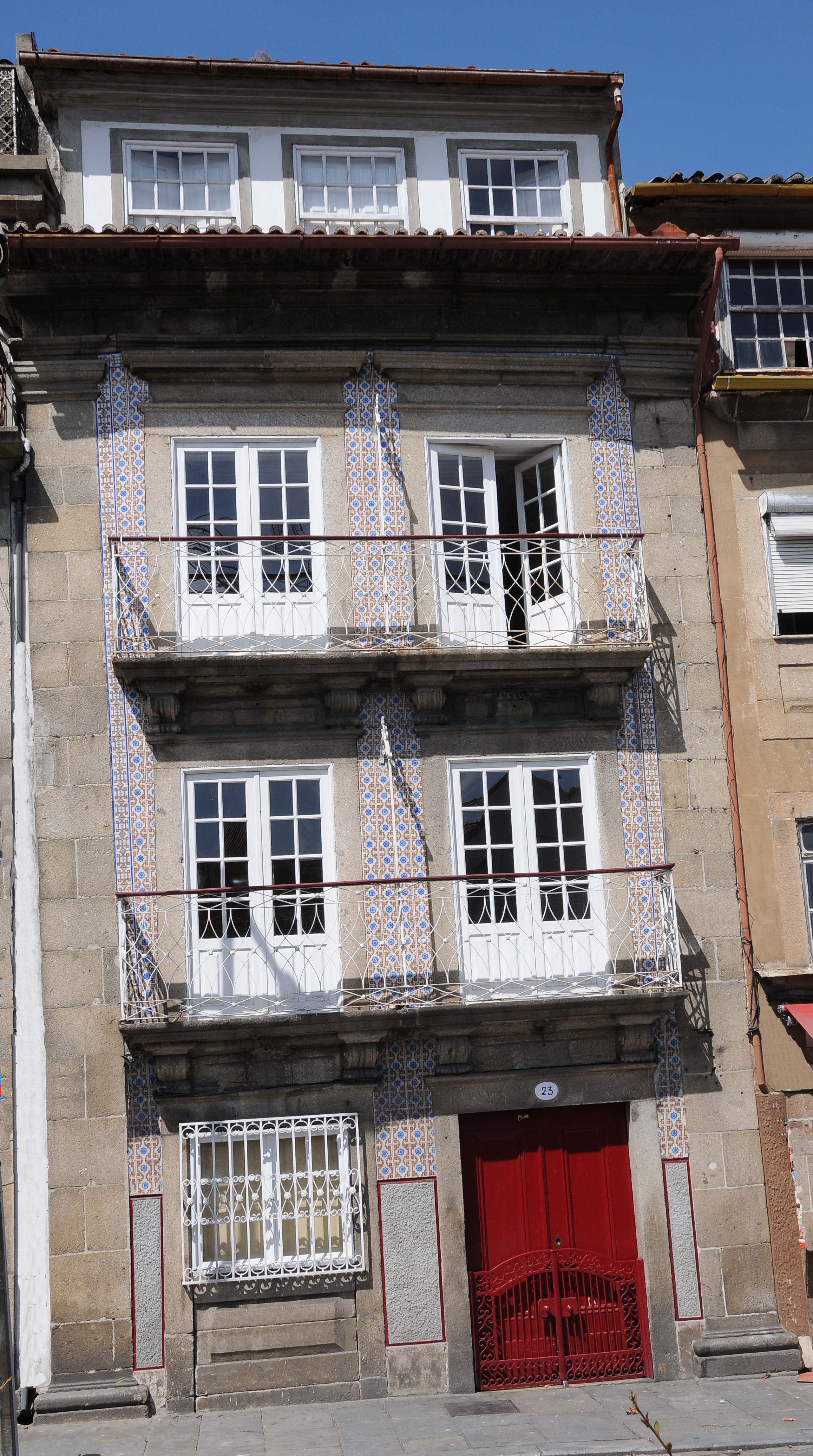 Velha a branca a house in Braga, Portugal